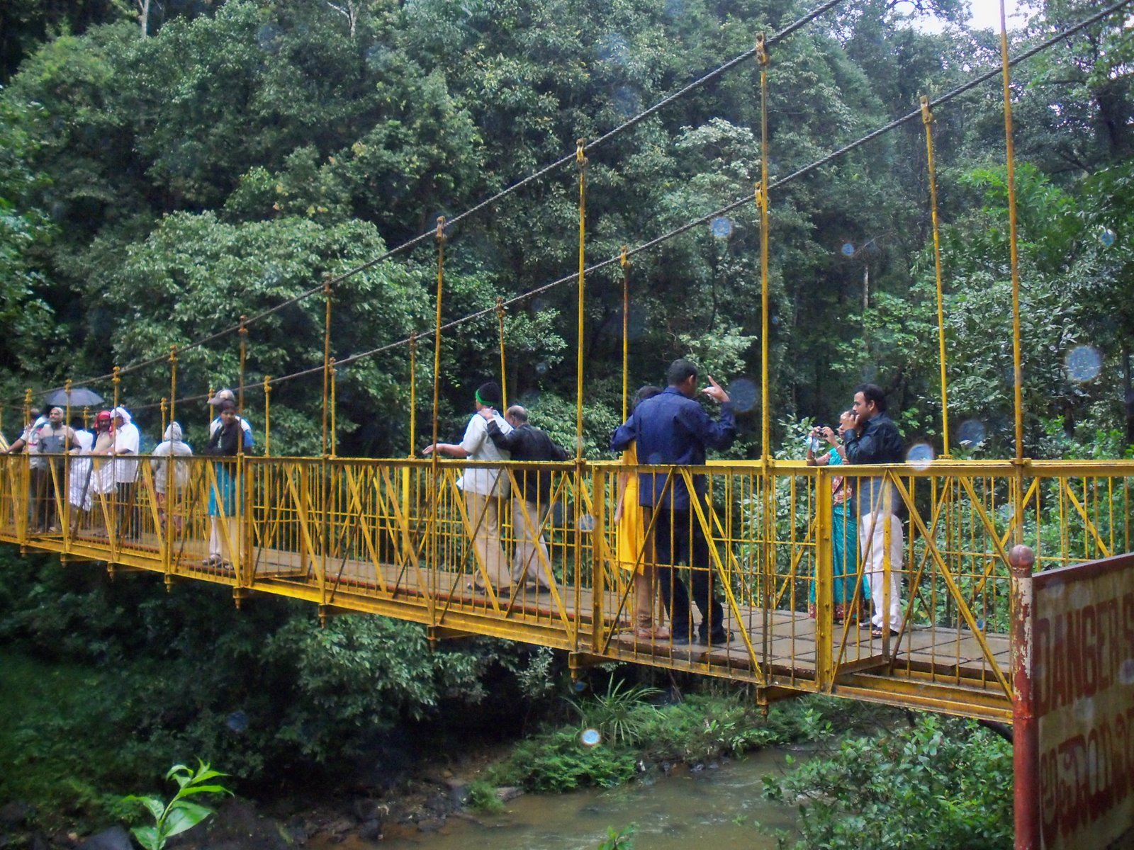 A hanging bridge near Abbey falls